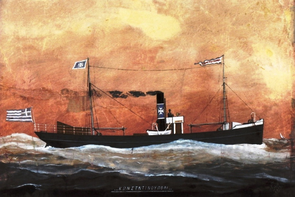 Steamship Constantinople, 1919